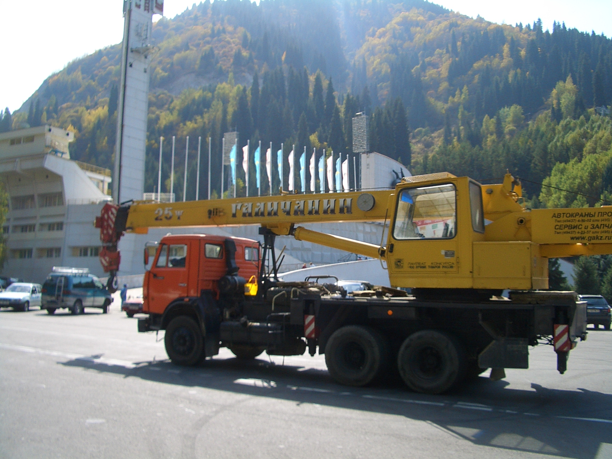 A Galichanin crane used in construction work near Medeu ice skating rink